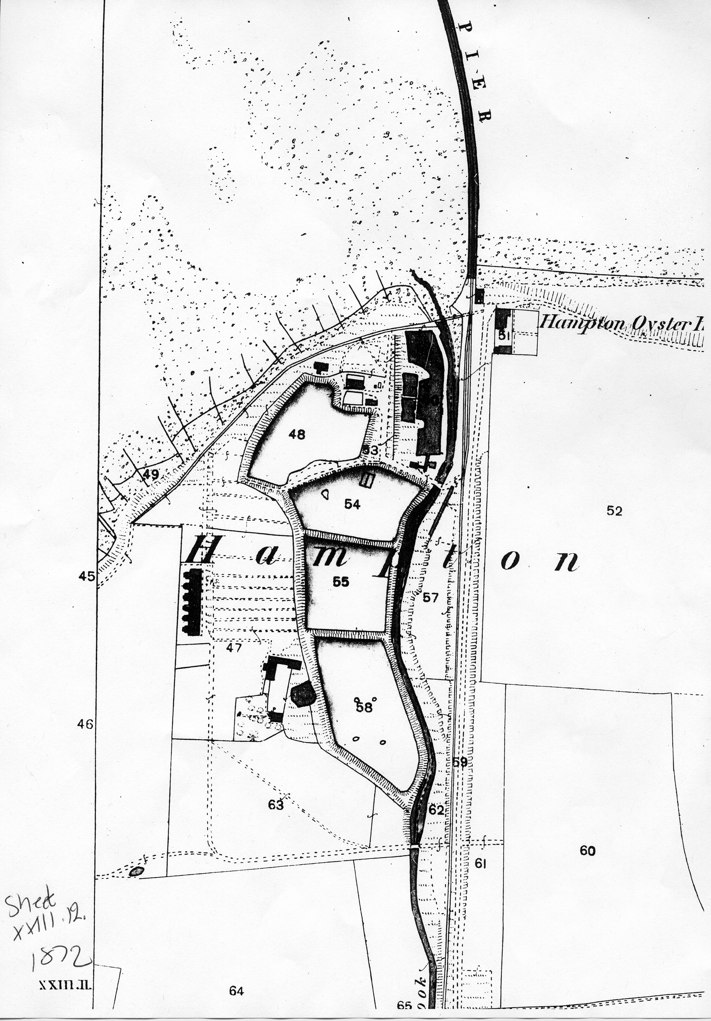 Part of 1872 OS map XXIII.12 of Hampton-on-Sea in East Kent, England, showing oyster fishery buildings and fishponds, along with early stages of coastal erosion initiated by the construction of the pier in 1865. The high water level on the north coast to the east of the pier is moving north as the beach material mounts up; the coastline to the west of the pier is being eroded away and is moving south. For progression of building and erosion, compare this map with: File:OS map Hampton 1878 114.jpg File:OS map Hampton 1898 002.jpg File:Hampton 1978 001b.jpg.